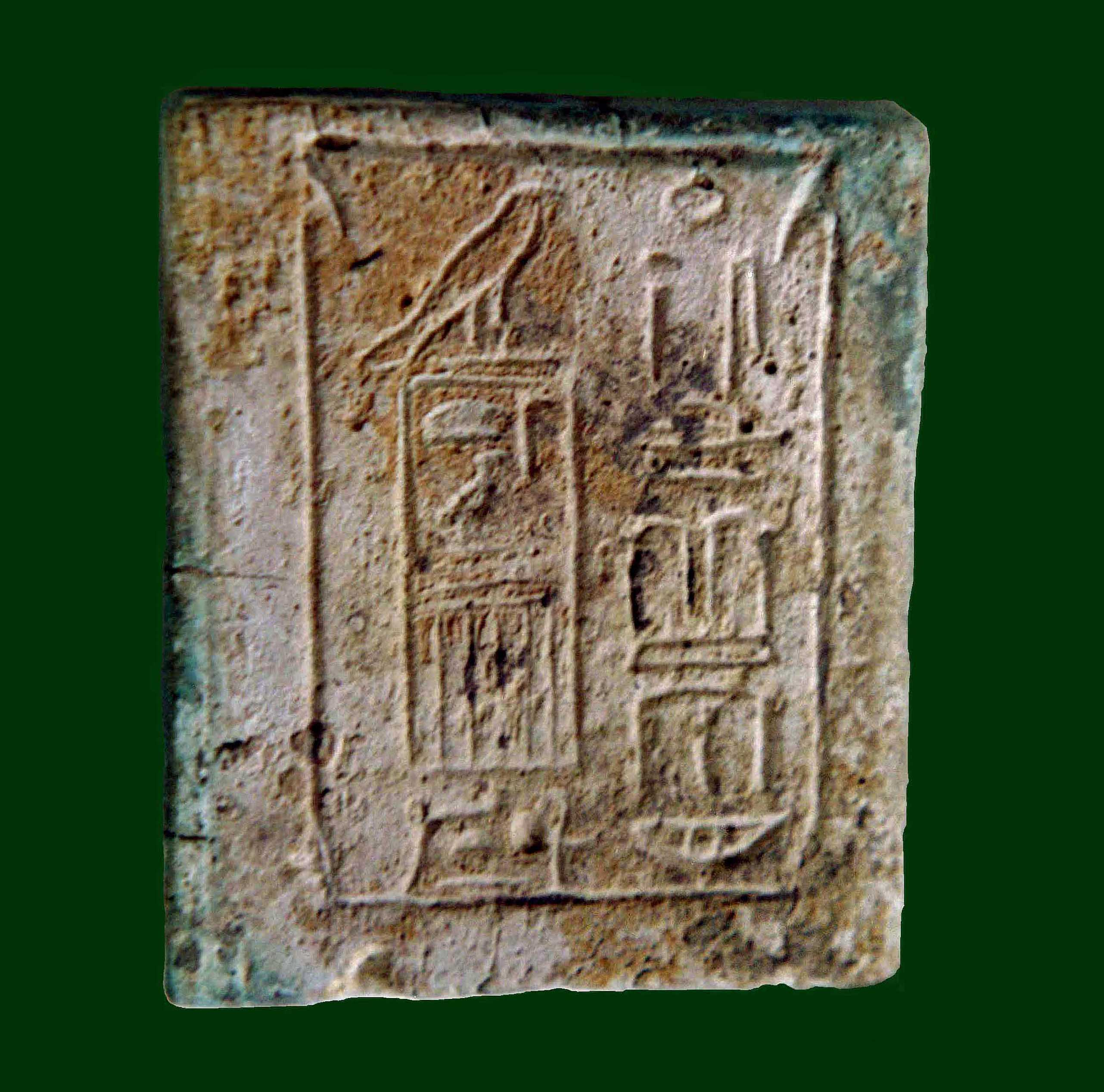 Plate of Horus Netjerkhau (Pepi II), with the mention of the 1st "Heb Sed" (Jubilee feast) of the King, Egyptian Museum, Cairo.